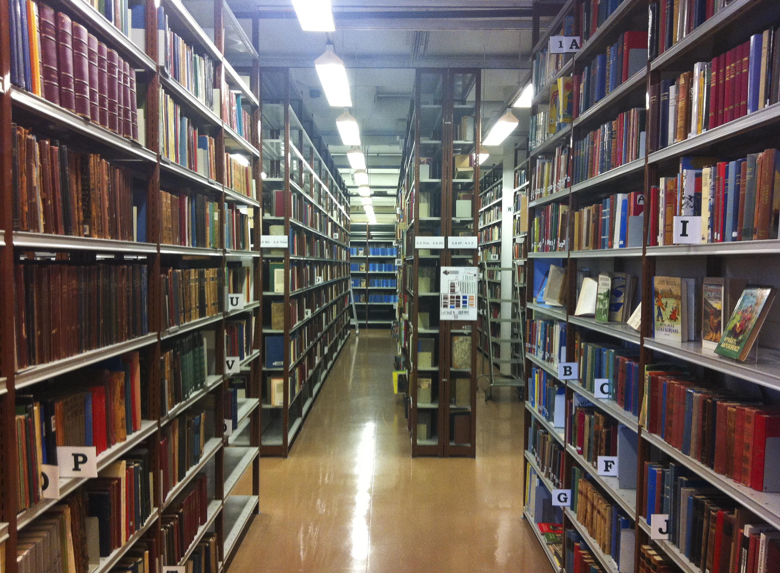 Book storage at Pasila library in Helsinki